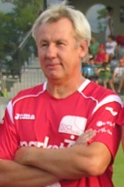 József Csuhay Hungarian international football player in Telki (Hungary) - Football Festival by MLSZ